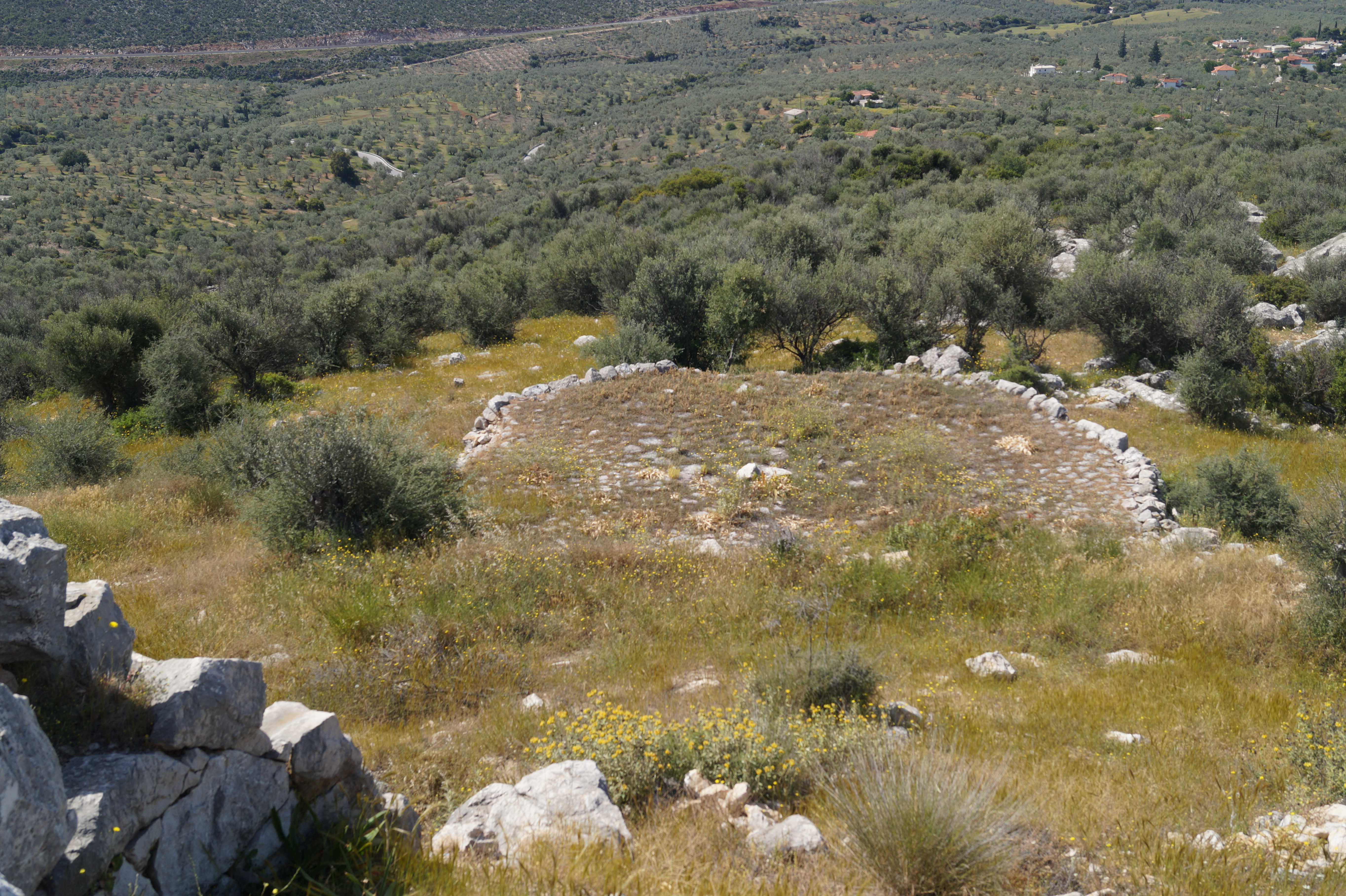 Arkadiko, Argolis, Greece: Threshing floor on Kastraki south of the castle.